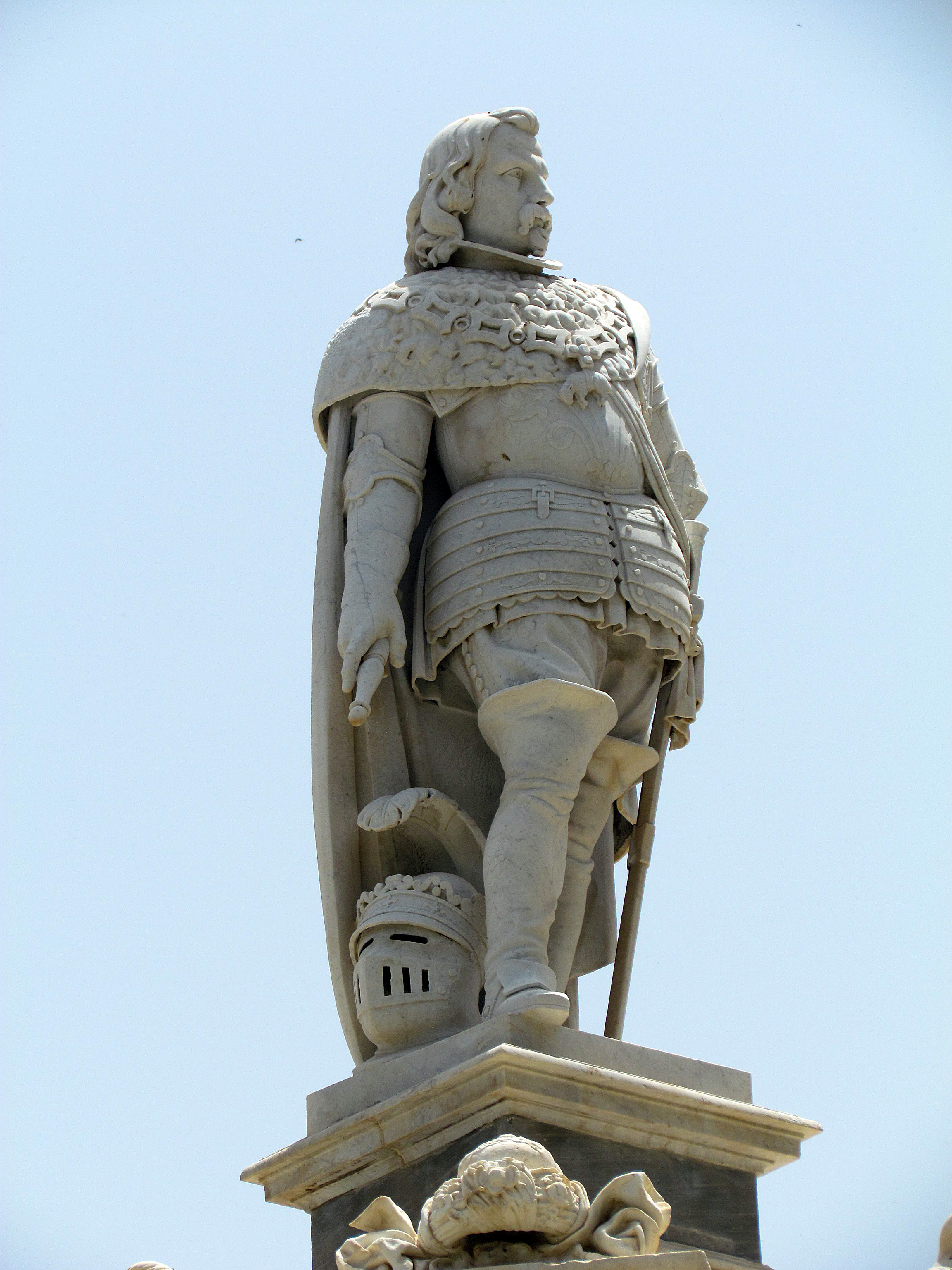 Statue of Philip V in the Teatro Marmoreo fountain, Palermo